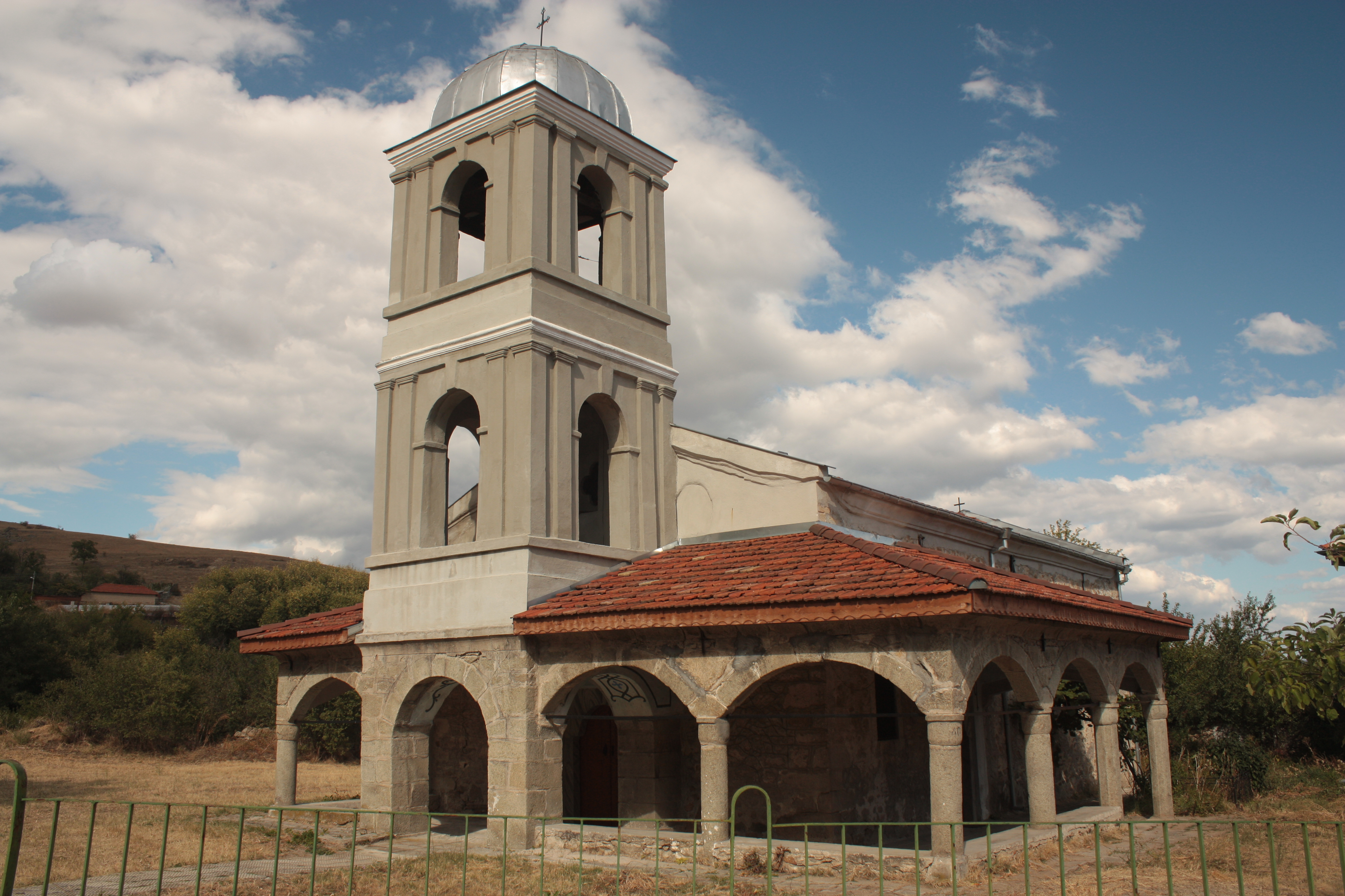 The Ascension of the Lord Church (1881) in Mihiltsi, Bulgaria